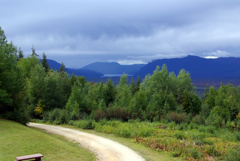 A landscape of Wells Gray PP